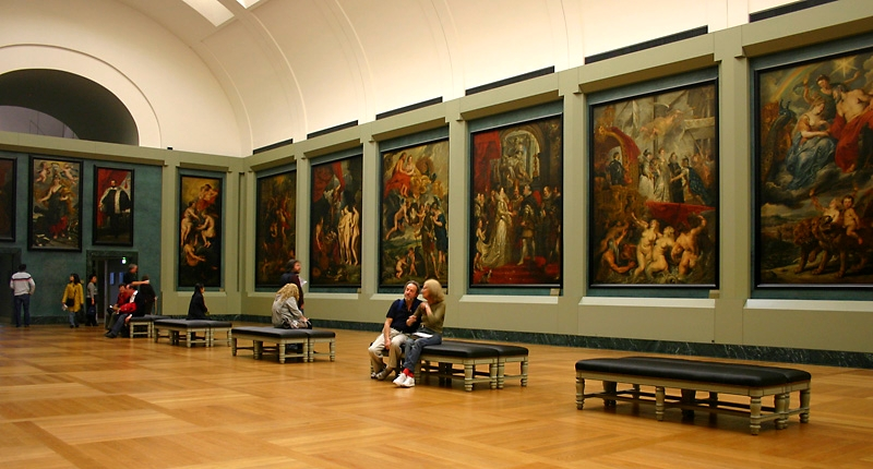 Flanders exposition at the Richelieu wing of the Louvre